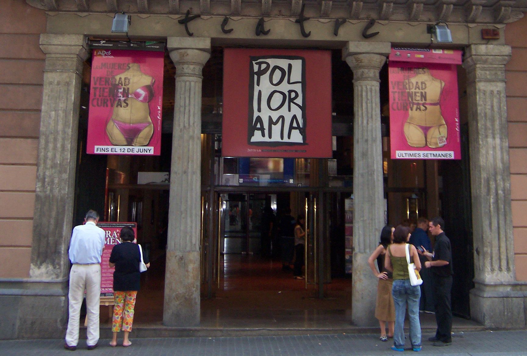 Poliorama Theater on the Avenue, in Barcelona.